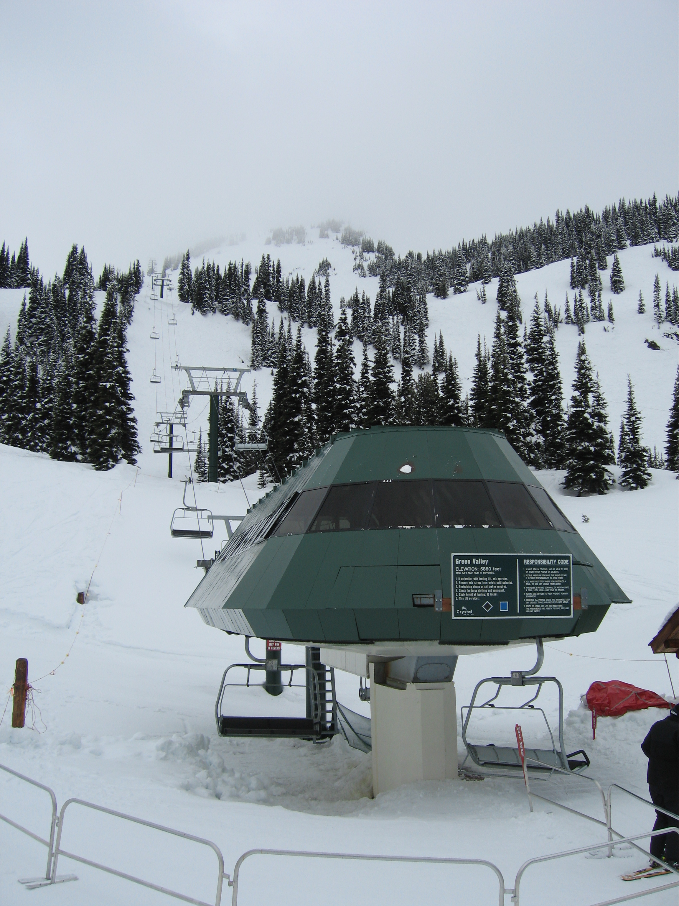 A Doppelmayr detachable chairlift at Crystal Mountain, Washington